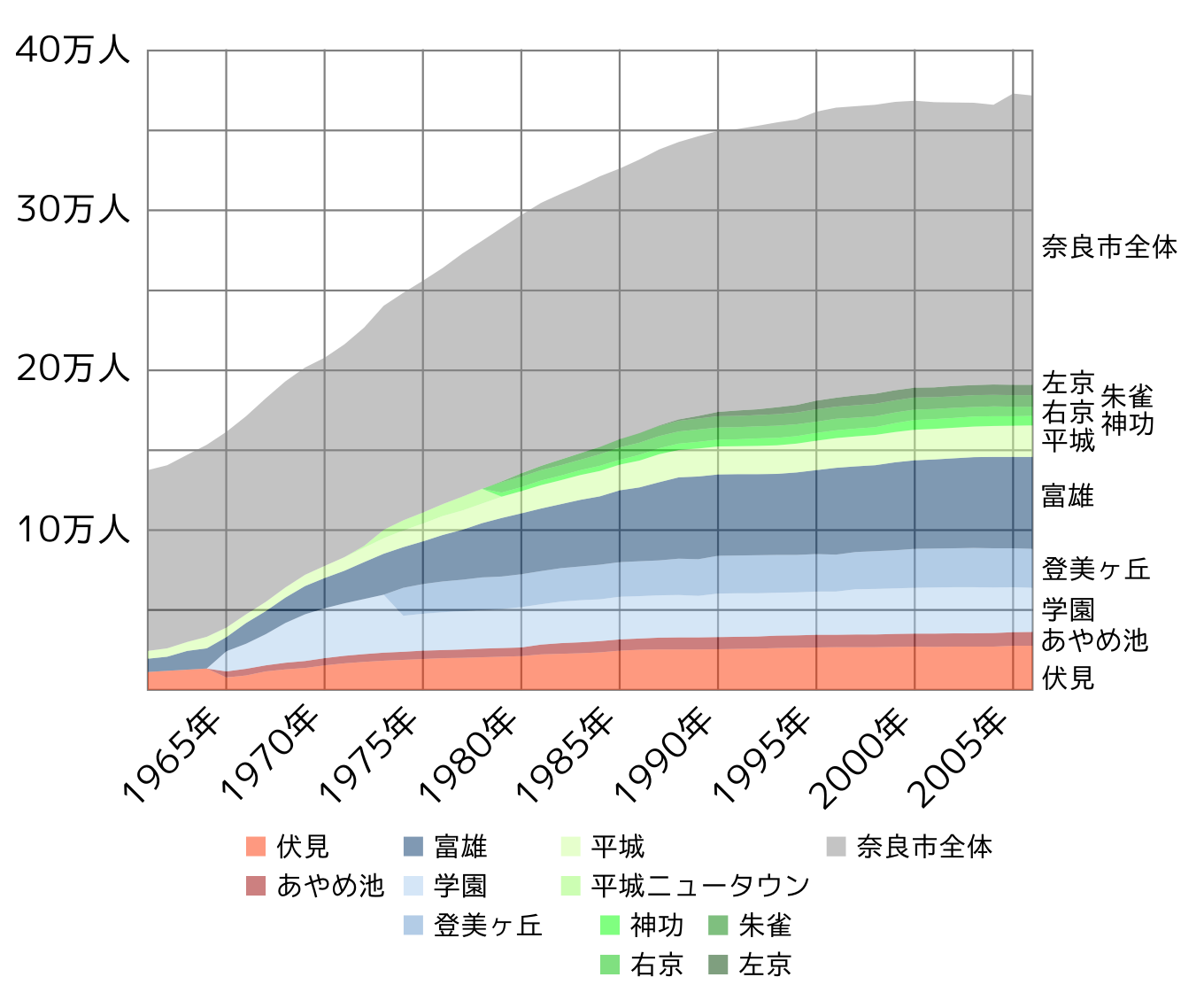 This picture presents population on west area of Nara City, Japan.